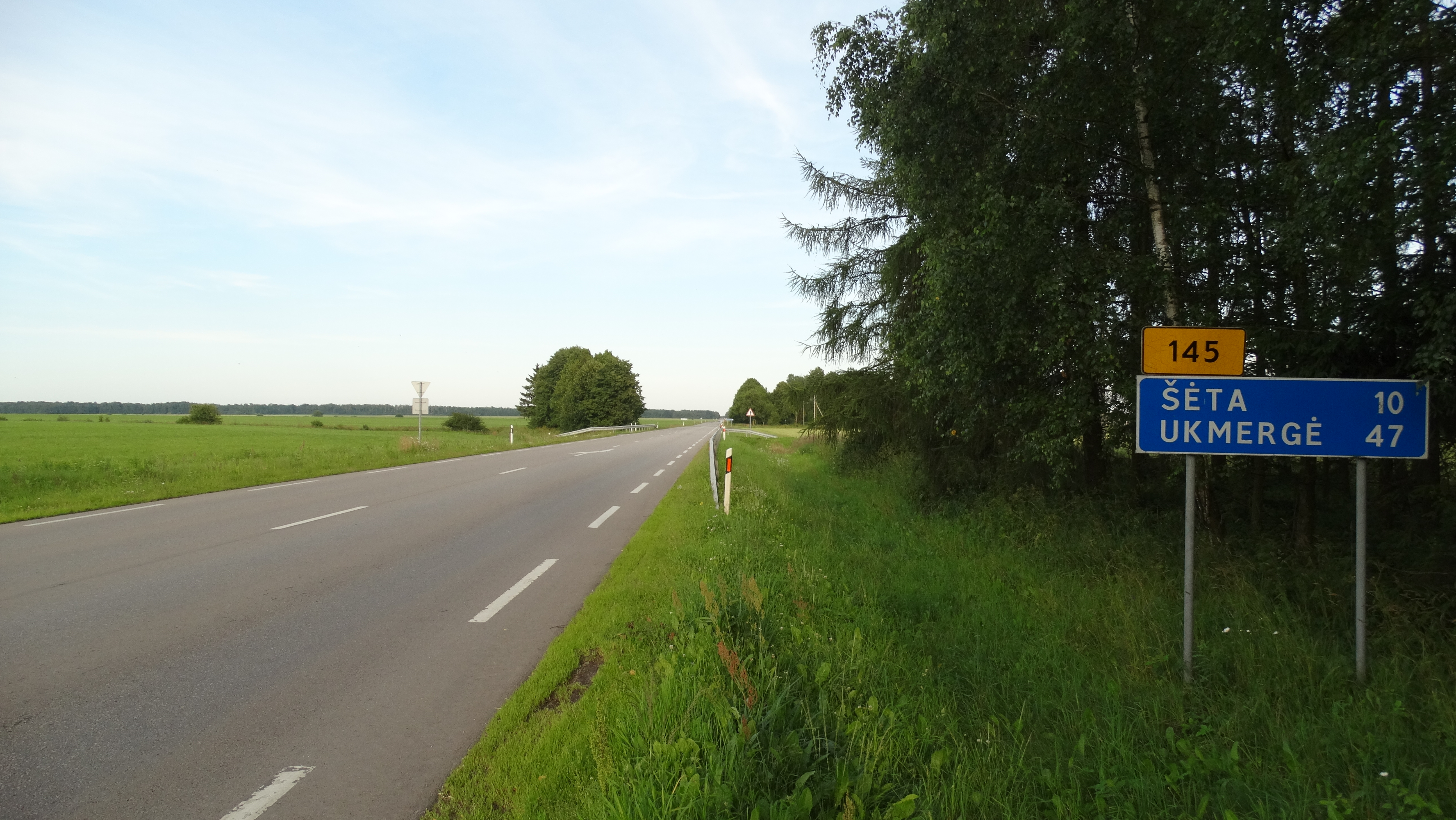 Road 145, Kėdainiai district, Lithuania